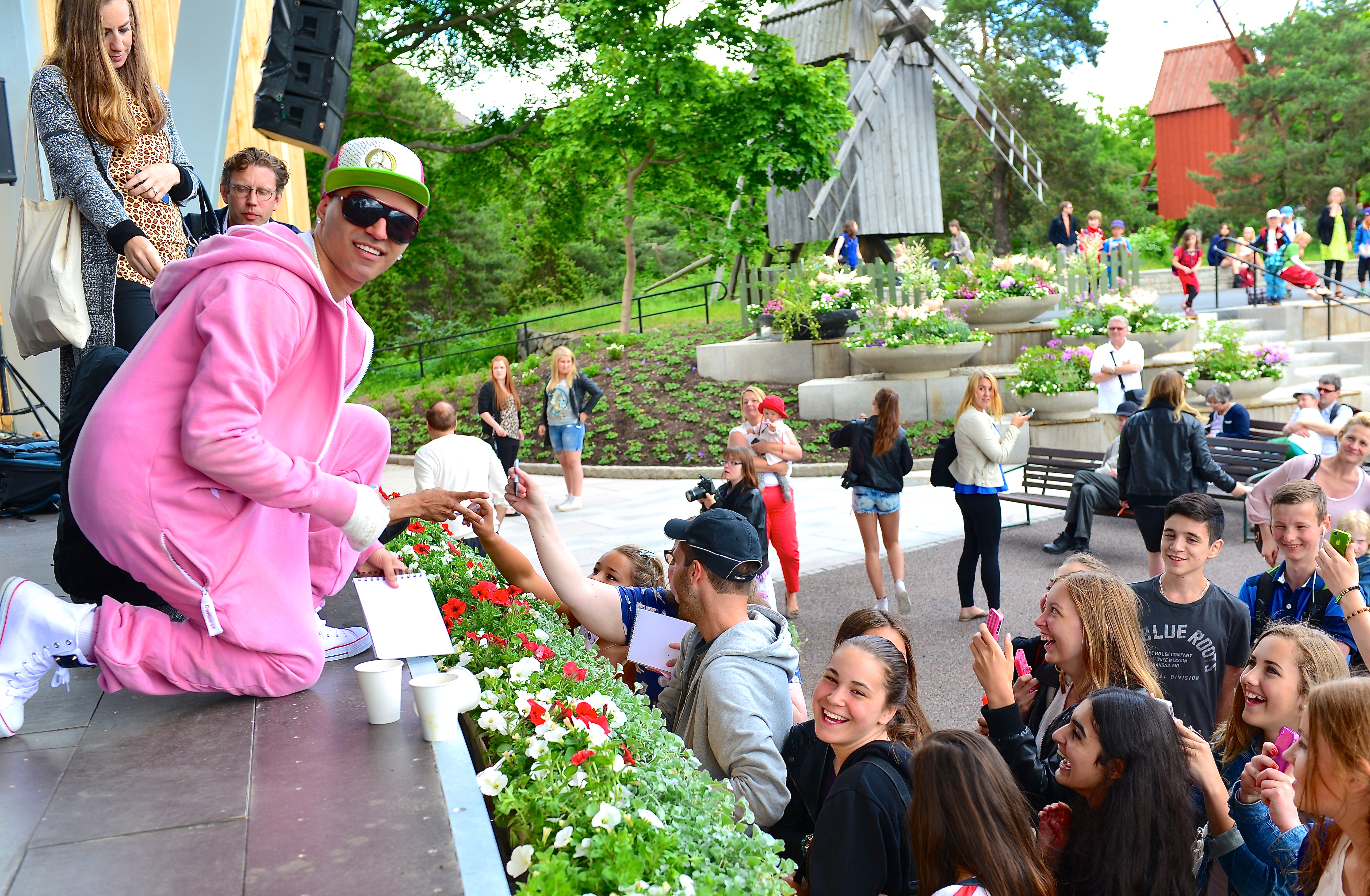 Sean Banan during the stage presentation to Allsång på Skansen in Stockholm June 11, 2013.